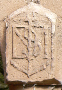 Crichton Castle, Midlothian, Scotland - monogram of Francis Stewart and Margaret Douglas